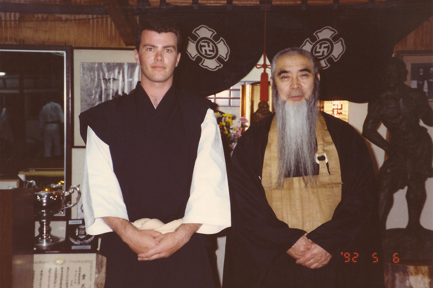 Anders Pettersson (left), and Zeoh Morikawa (right) during Anders Pettersson's stay in Rakuto-Doin, 1992.